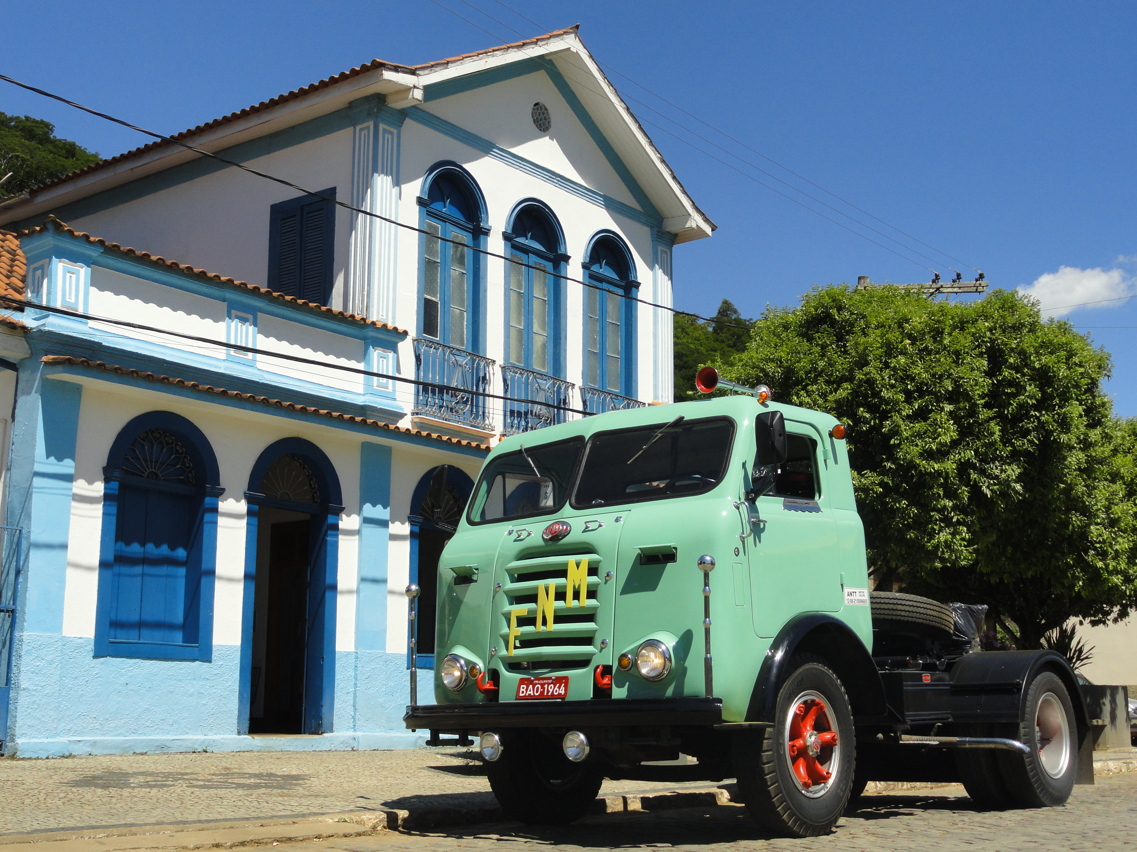 FNM D-11.000, model 1964 with standard cabin, in the city of Tombos, Minas Gerais, Brazil.